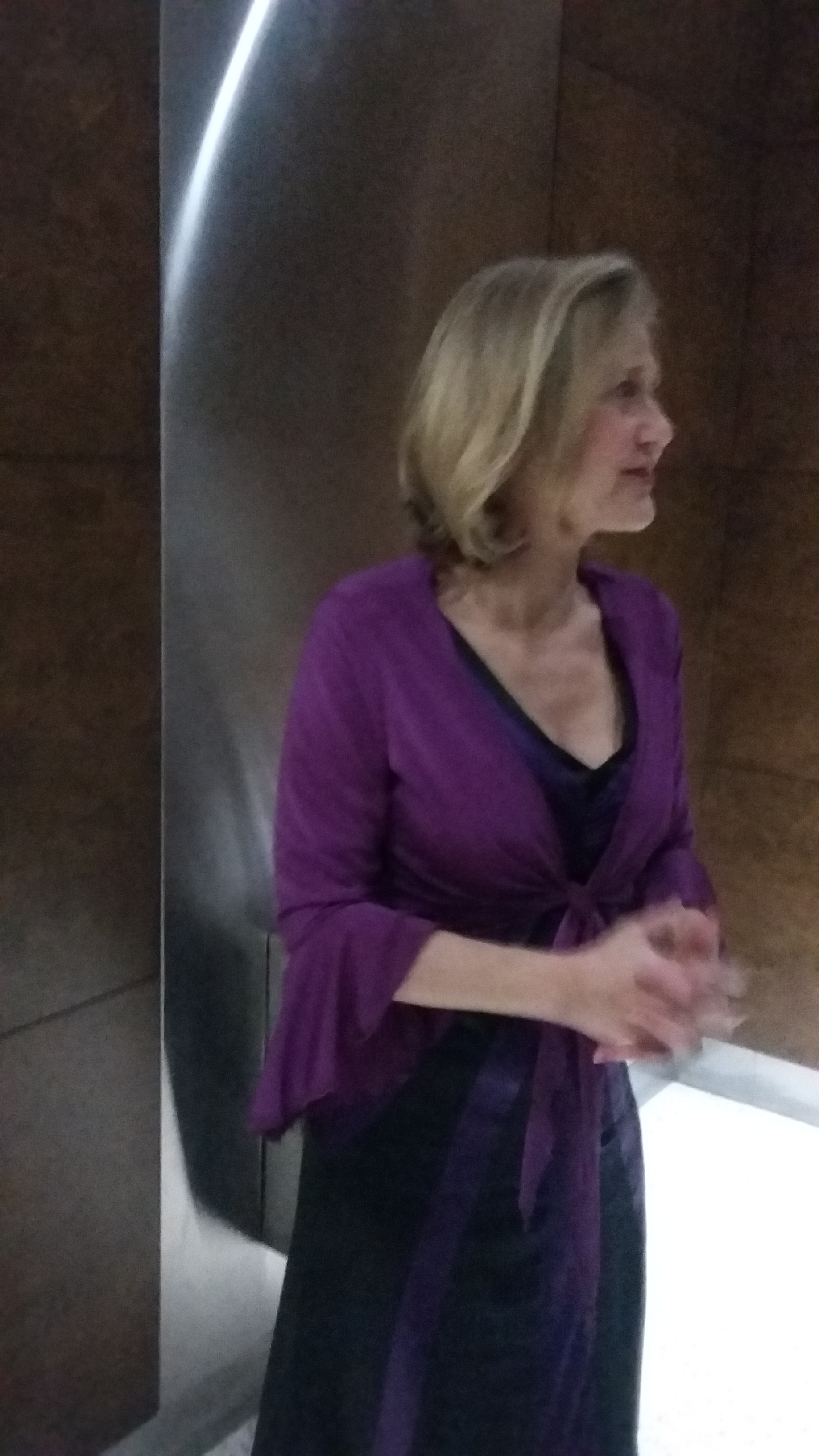 Suzie LeBlanc photographed in Montreal, Quebec, Canada at the Montreal Museum Of Fine Arts.